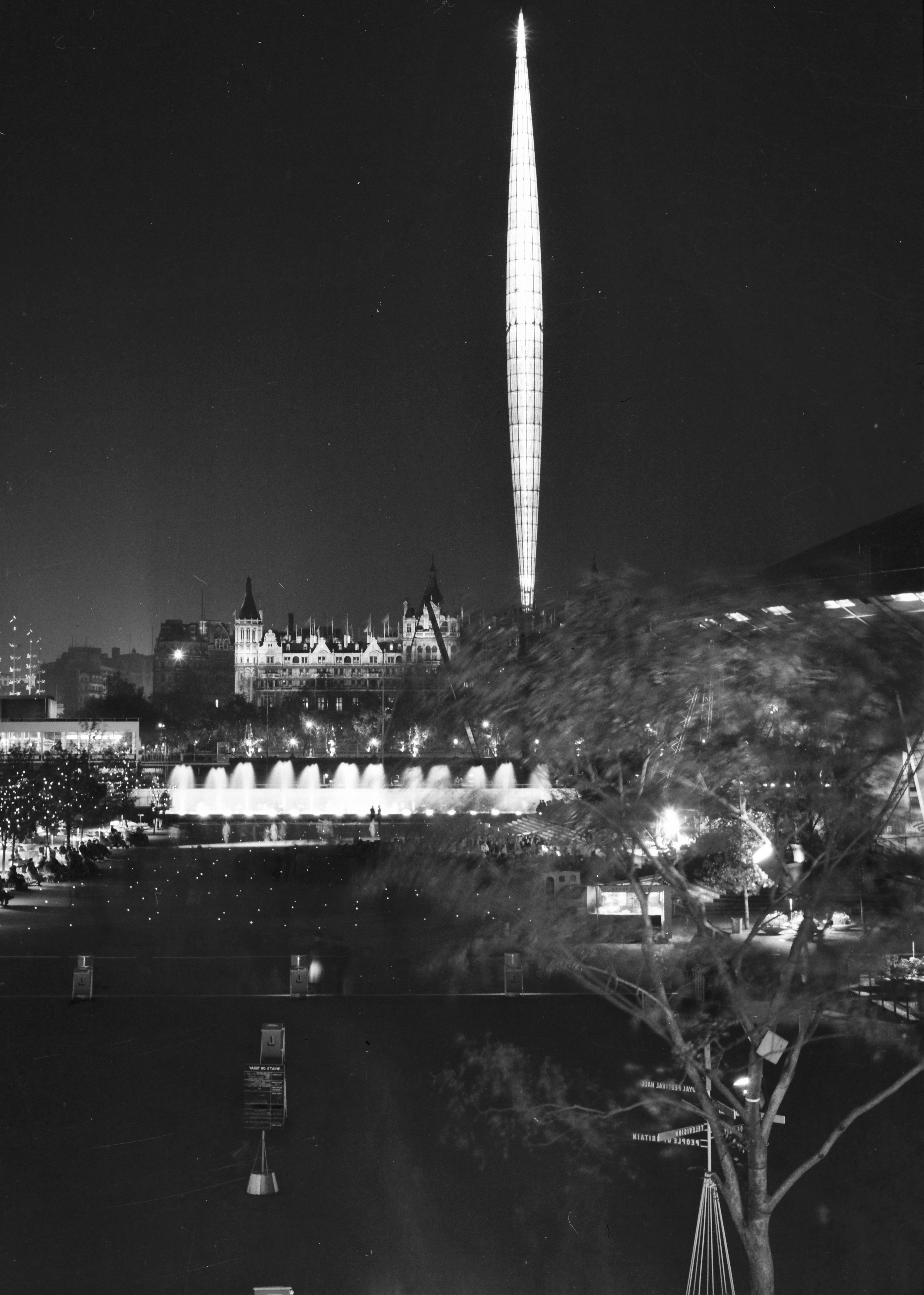 Night time view of the Skylon, 1951